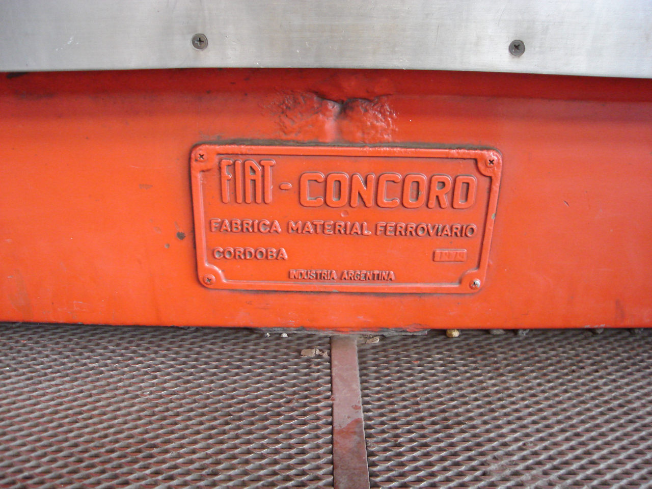 Fiat Concord logo has always had a red background.